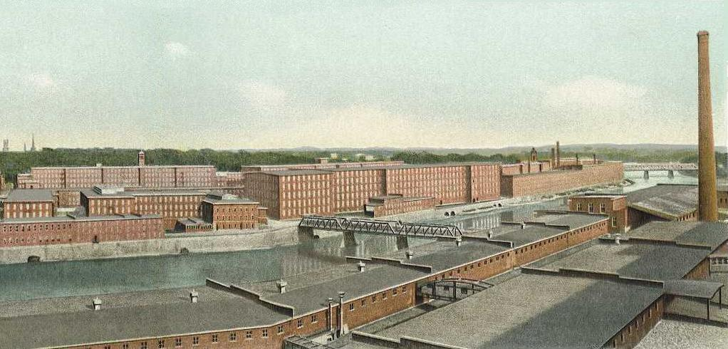 Amoskeag Manufacturing Company, looking down the Merrimack River, Manchester, NH; from a 1911 postcard by Alphonso H. Sanborn.